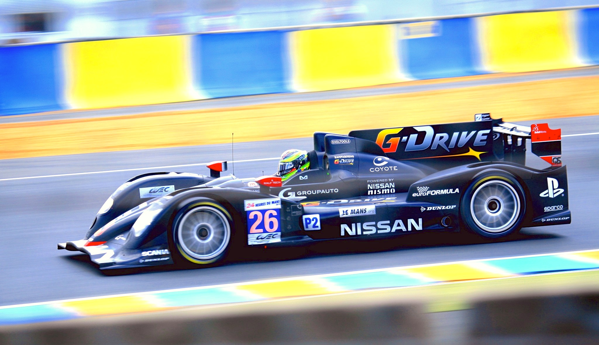 2012 24 Hours of Le Mans